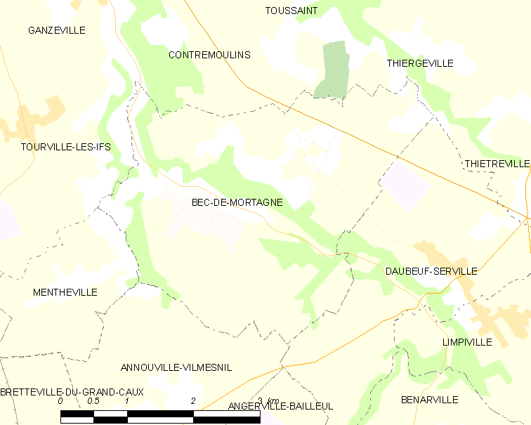 Map of French municipality Bec-de-Mortagne